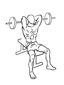 an exercise of triceps